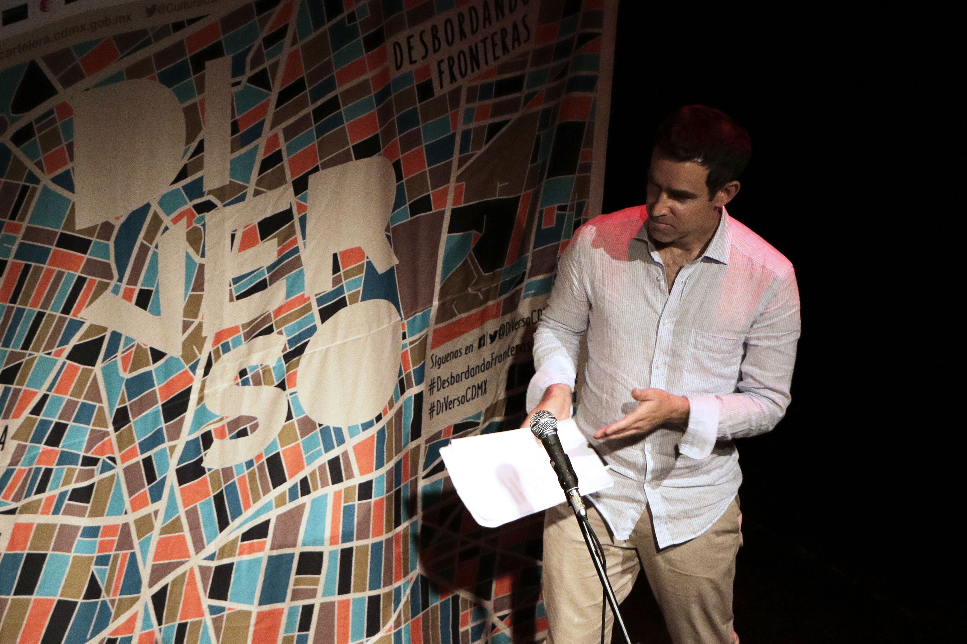 James Byrne (UK) on a poetry reading in Mexico City, Monday, 23 July, 2018. Picture by Tania Victoria / Secretaria de Cultura CDMX.